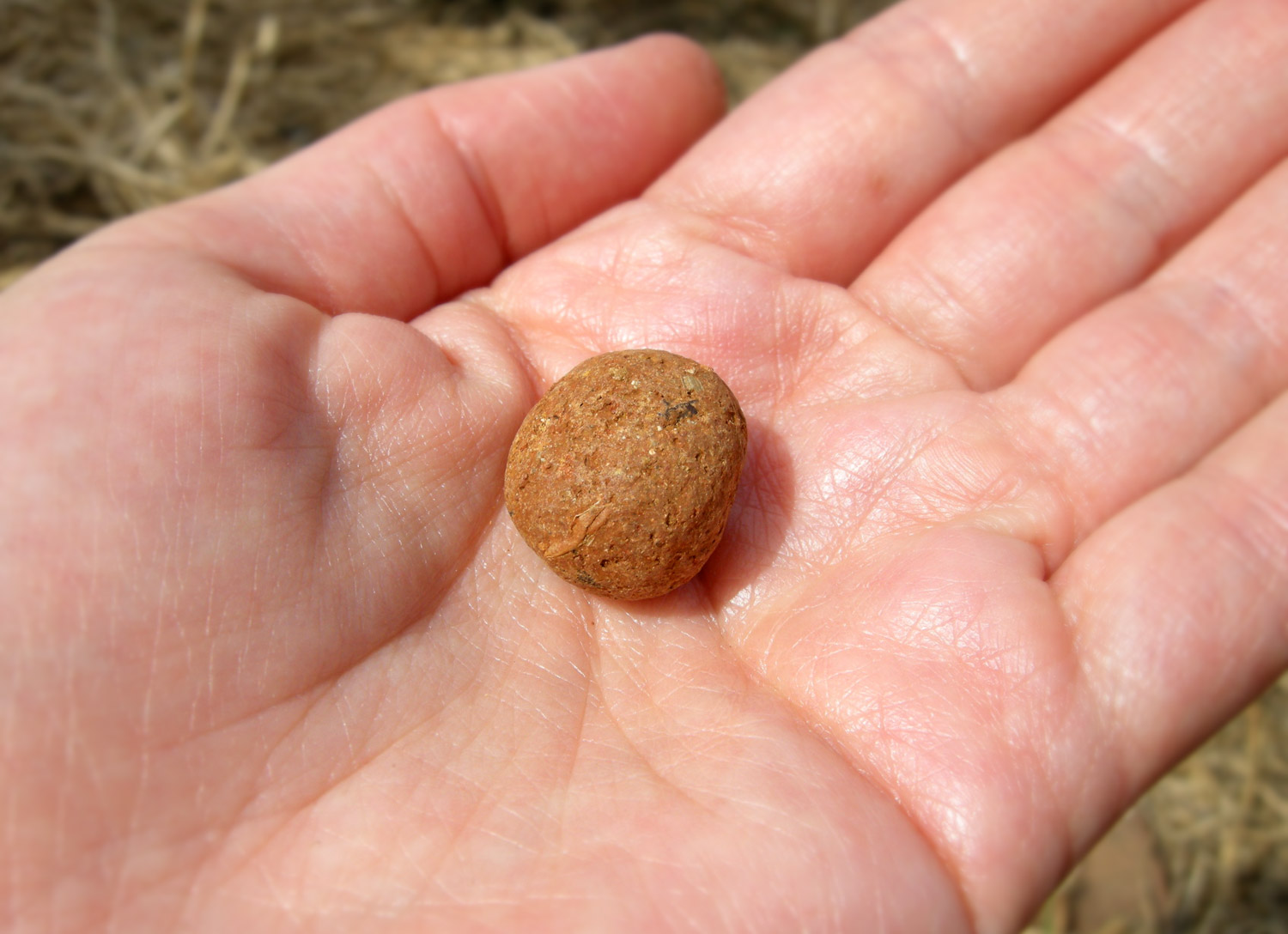 The seedball planting technique was developed by Masanobu Fukuoka, and it's an effective way to seed large areas, such as meadows or wild lands, with grasses and trees. Seedball is a mixture of clay and various seeds, that allows the seeds to stay protected inside the ball until it rains, and the conditions become favourable for sprouting. The Milkwood guys have spread the seedballs with grasses to revive the soil in preparation for food forest planting. Milkwood Permaculture Farm, October 2010